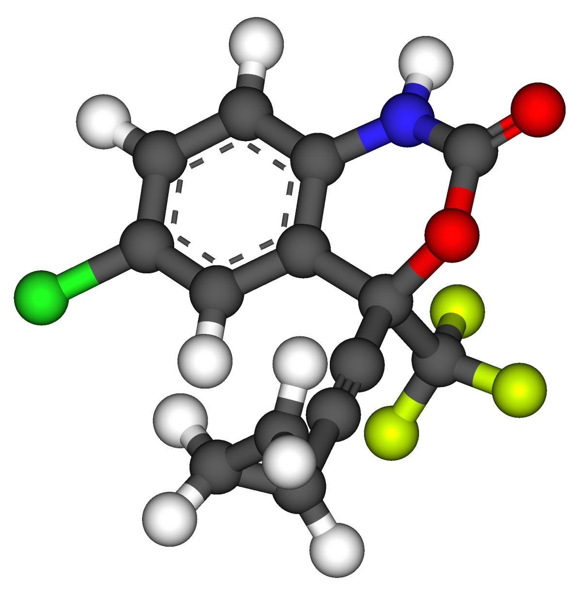 Ball-and-stick model of efavirenz. Created using Accelrys DS Visualizer Pro 1.7 and GIMP. Optimized with OptiPNG.